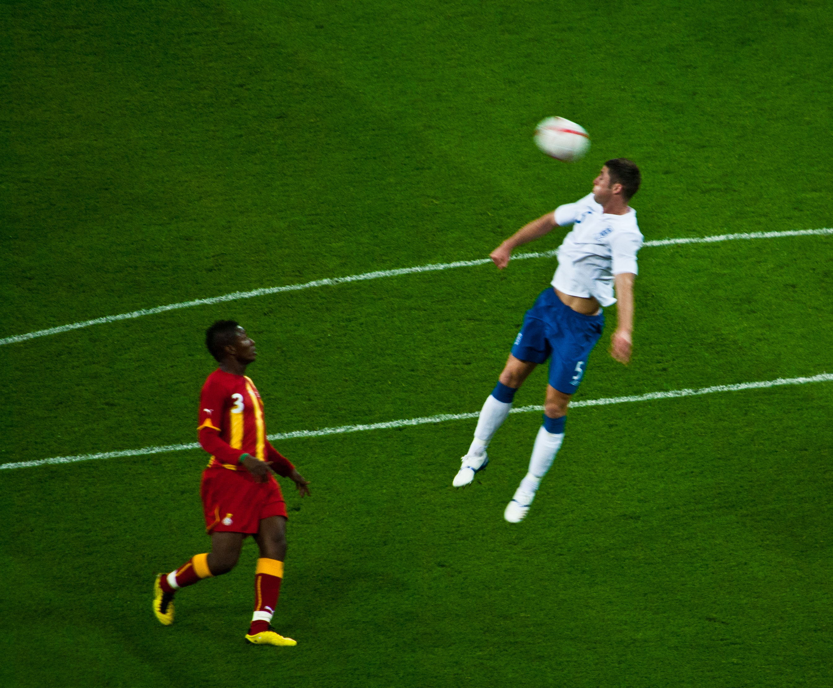 Photo taken by Cedric Ramirez with a Nikon D3000 camera.Asamoah Gyan and Gary Cahill; professional footballers, playing for the Ghana national football team against the England national football team.